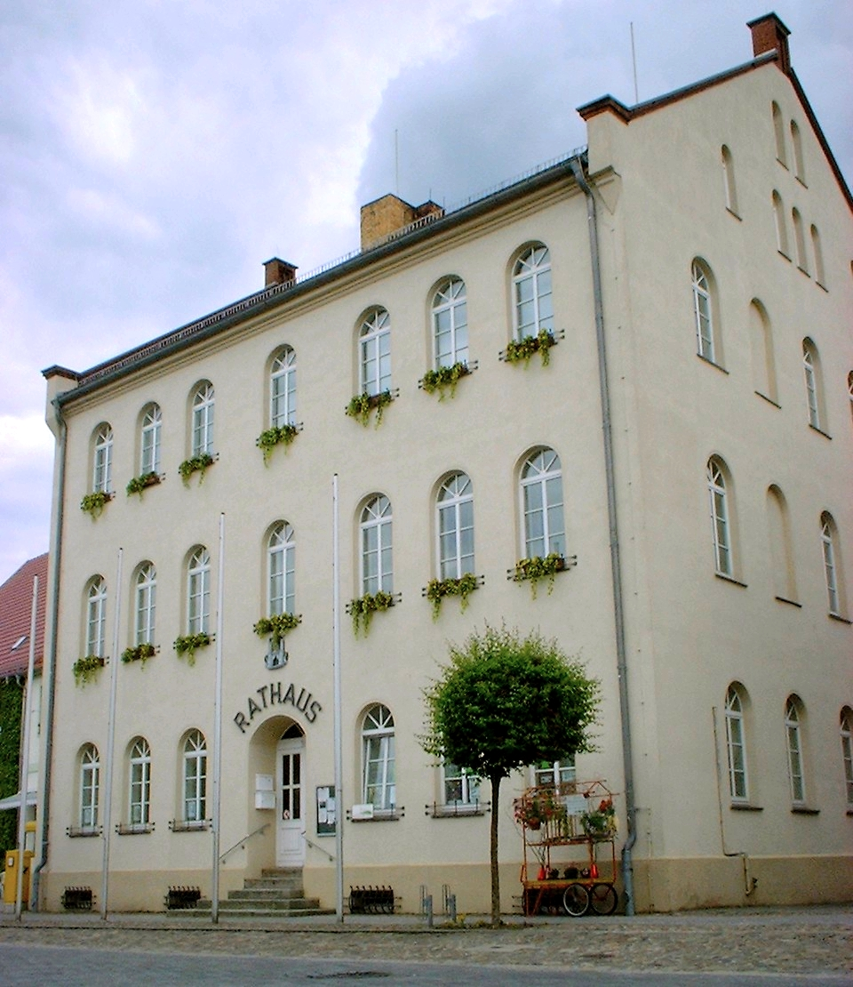 Town hall in Jessen in Saxony-Anhalt, Germany